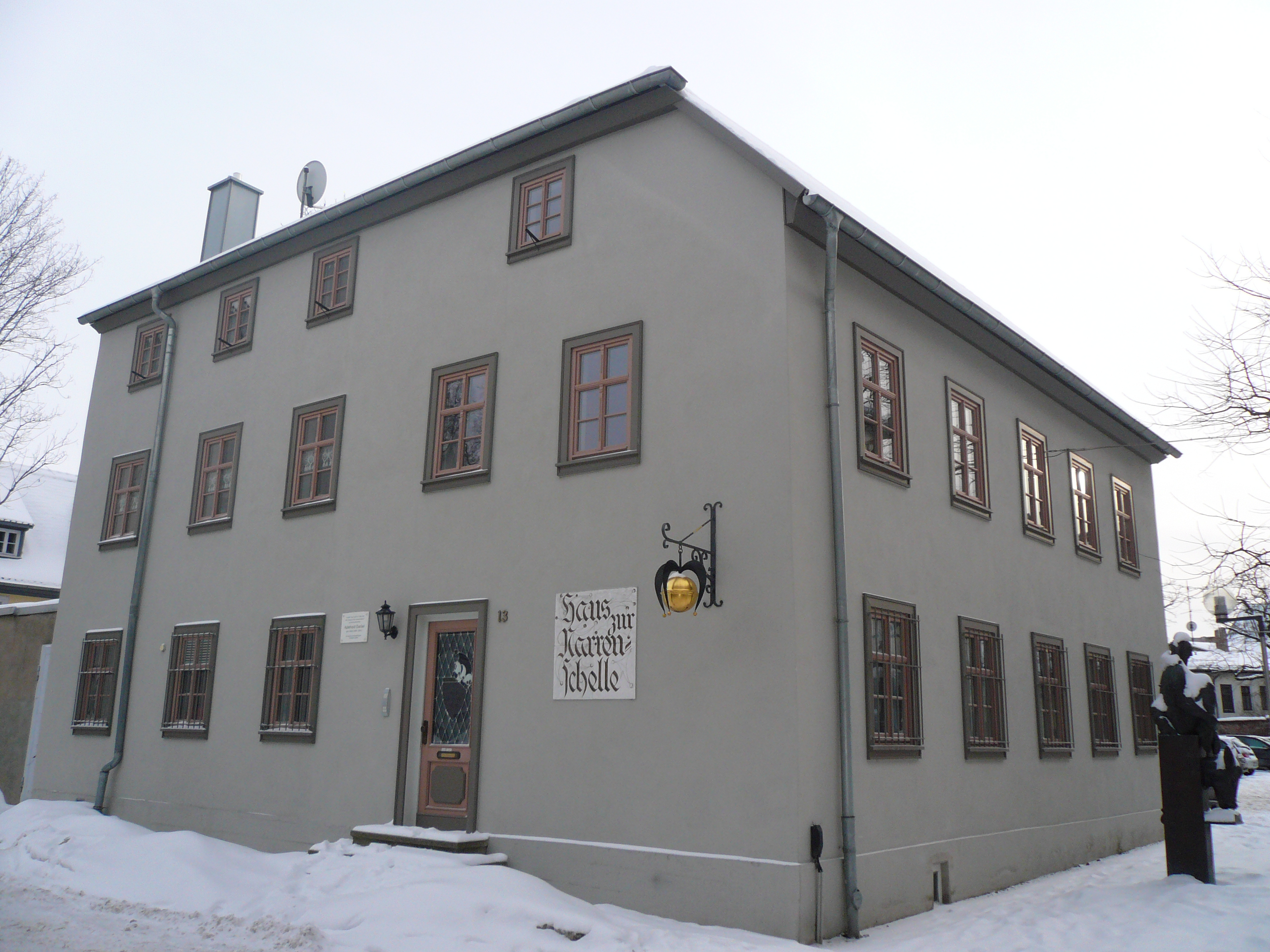 The house "Zur Narrenschelle" in Erfurt, Germany